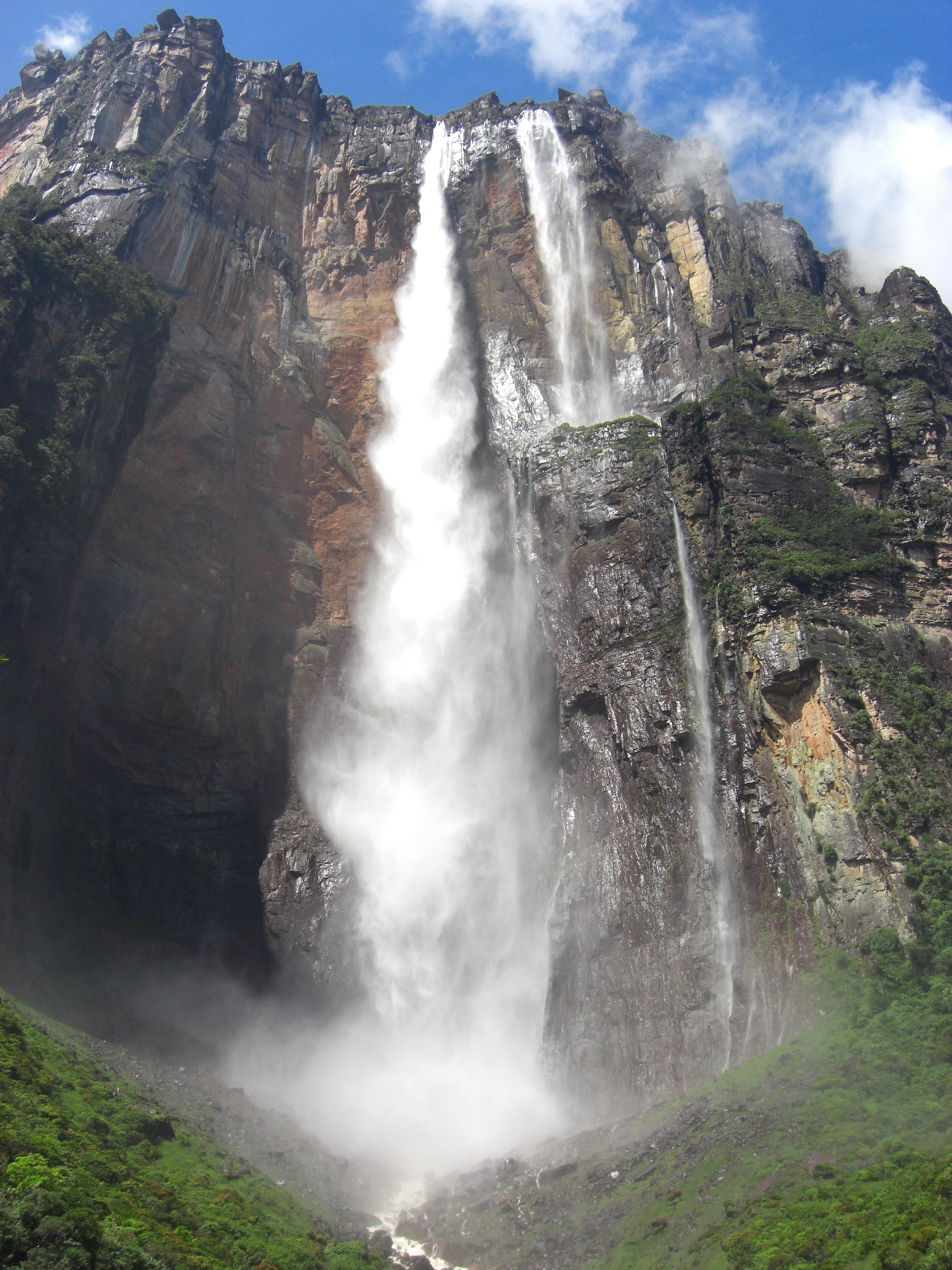 Salto Angel, Canaima, Venezuela